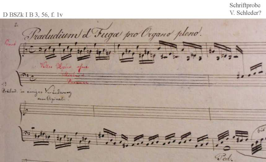 First page of the Prelude BWV 543a